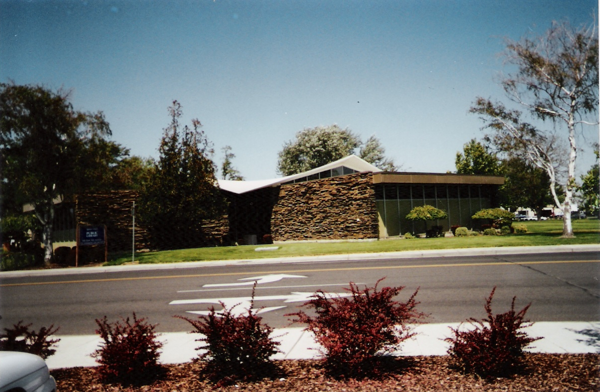 I took this photo on July 31, 2006.